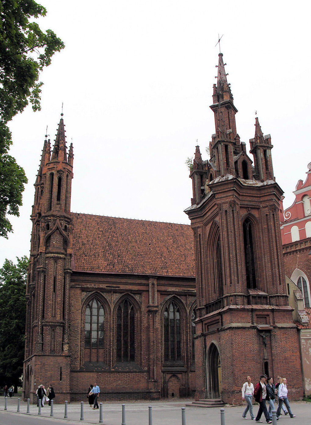 Saint Ann's belltower in Vilnius, Lithuania (as designed by N. M. Chagin)